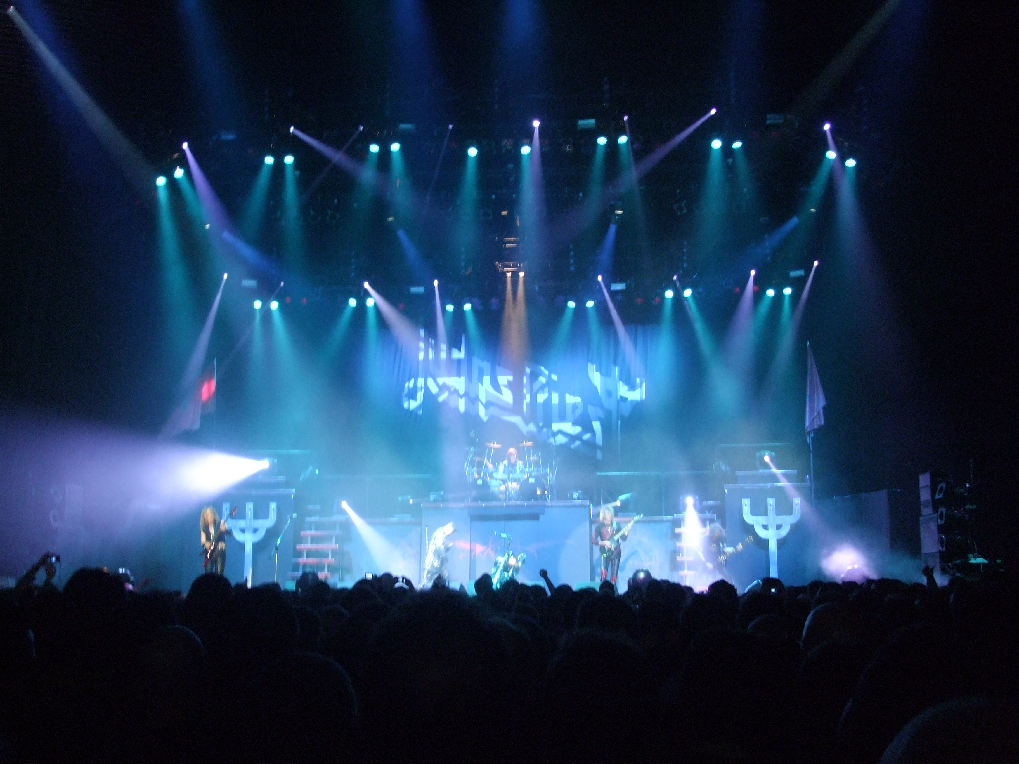 Judas Priest performing at the Sheffield Arena in February 2009